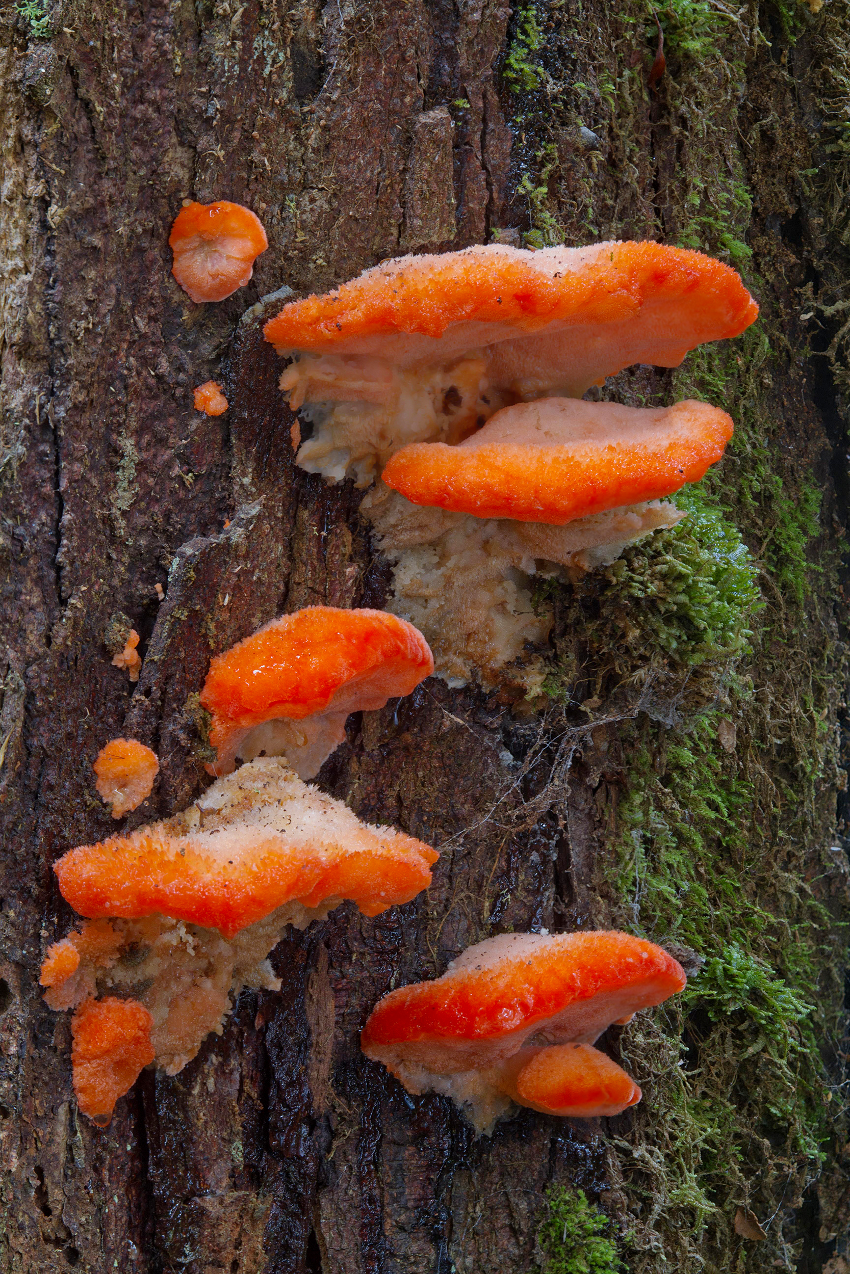 The polypore fungus Tyromyces pulcherrimus; photographed in Upper Florentine, Tasmania, Australia.